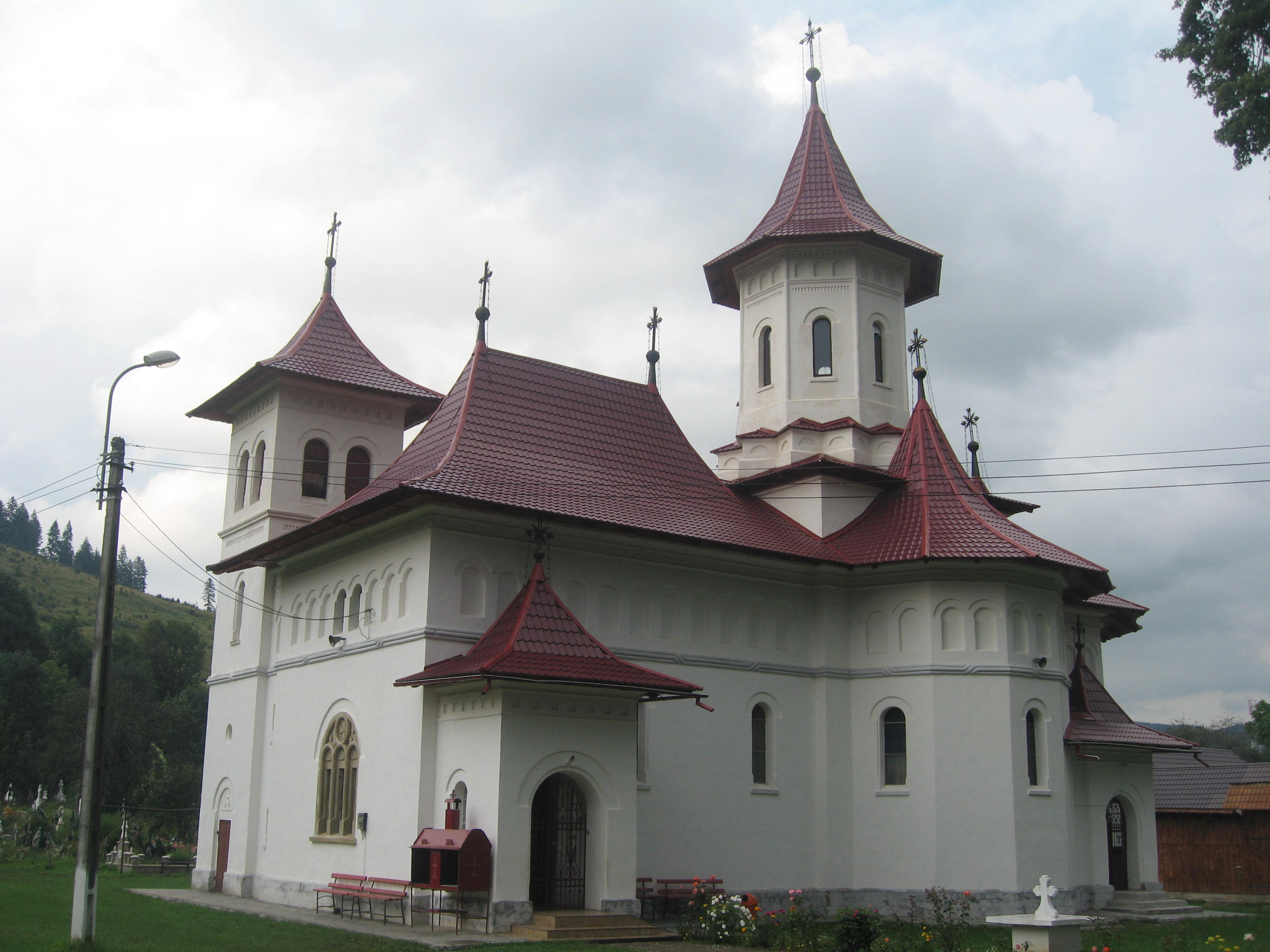 Wooden church of Putna